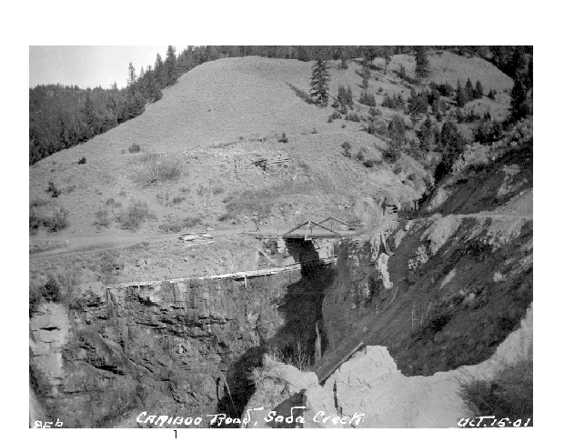 Cariboo Road at Soda Creek (1901)